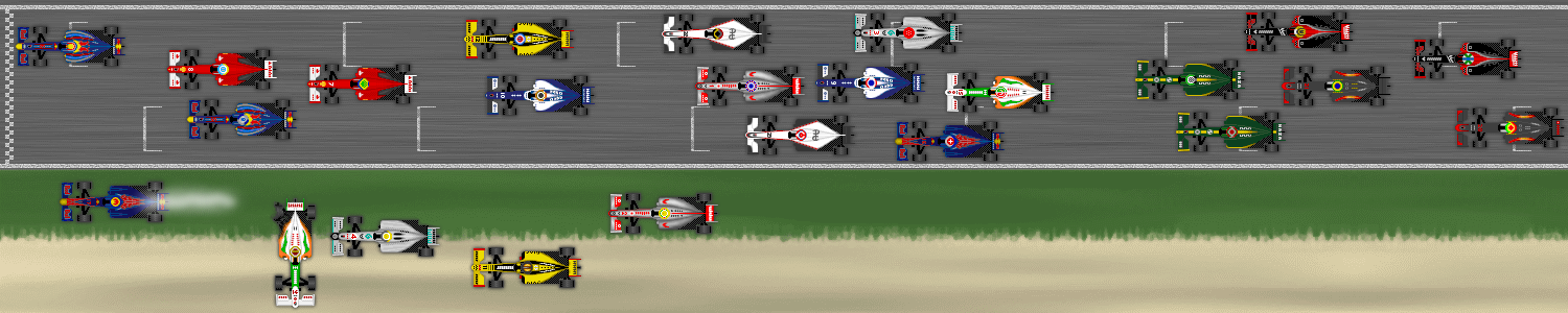 Race result of the 2010 Hungarian Grand Prix in Budapest